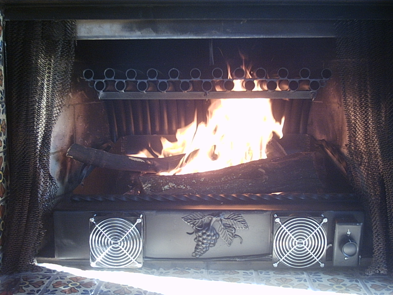 The solid wall of tubes in the back act like a fire back, the staggering of the tubes at the top allow the upward draft of smoke and flame. This fireplace grate blower has high surface area dense tube packing to maximize its heat exchanger. NOTE its lift out ash tray making fire cleanup super simple.